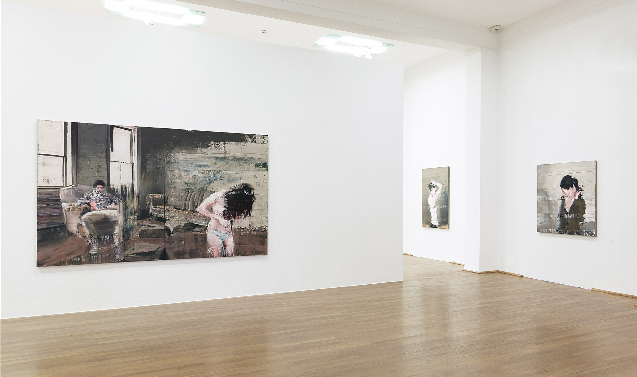 Installation view of Andy Denzler exhibition Distorted Moments, LudwigMuseum Koblenz 2014